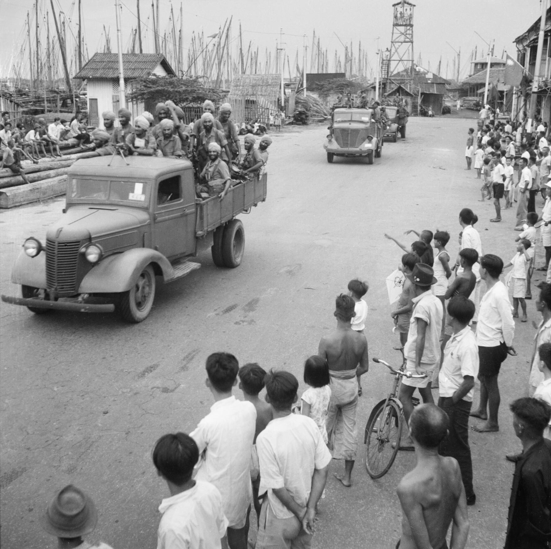 British Reoccupation of Singapore, 1945 Men of the 5th Indian Division pass through the streets of Singapore in lorries shortly after landing as part of the reoccupation force.